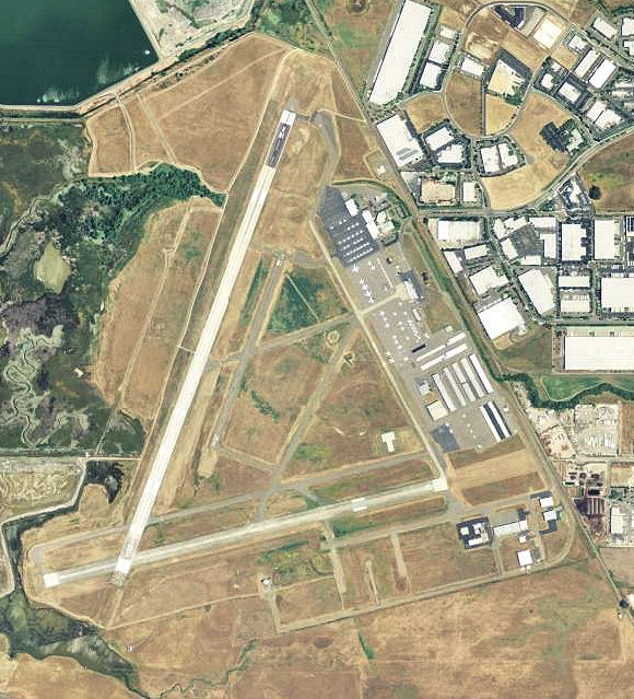 USGS digital orthophoto of Napa County Airport in California